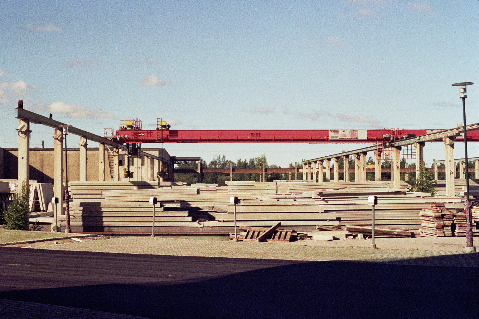 Two overhead cranes at the factory of Rajaville, a manufacturer of concrete products, in Alppila, Oulu, Finland.